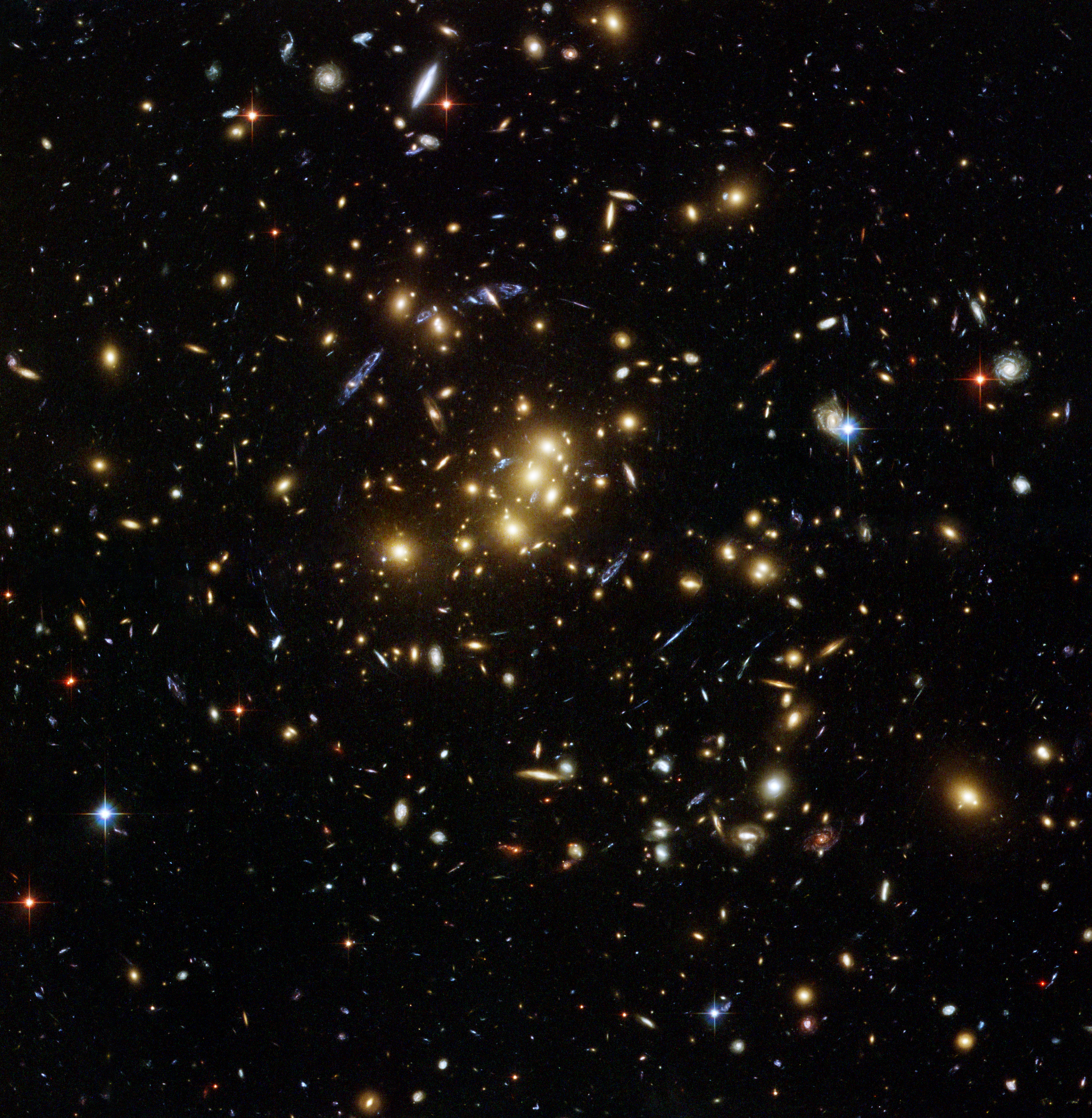 This rich galaxy cluster, catalogued as CL0024+17, is allowing astronomers to probe the distribution of dark matter in space. The blue streaks near the center of the image are the smeared images of very distant galaxies that are not part of the cluster. The distant galaxies appear distorted because their light is being bent and magnified by the powerful gravity of CL0024+17, an effect called gravitational lensing. Dark matter cannot be seen because it does not shine or reflect light. Astronomers can only detect its influence by how its gravity affects light. By mapping the distorted light created by gravitational lensing, astronomers can trace how dark matter is distributed in the cluster. While mapping the dark matter, astronomers found a dark-matter ring near the cluster's center. The ring's discovery is among the strongest evidence that dark matter exists. The Hubble observations were taken in November 2004 by the Advanced Camera for Surveys.